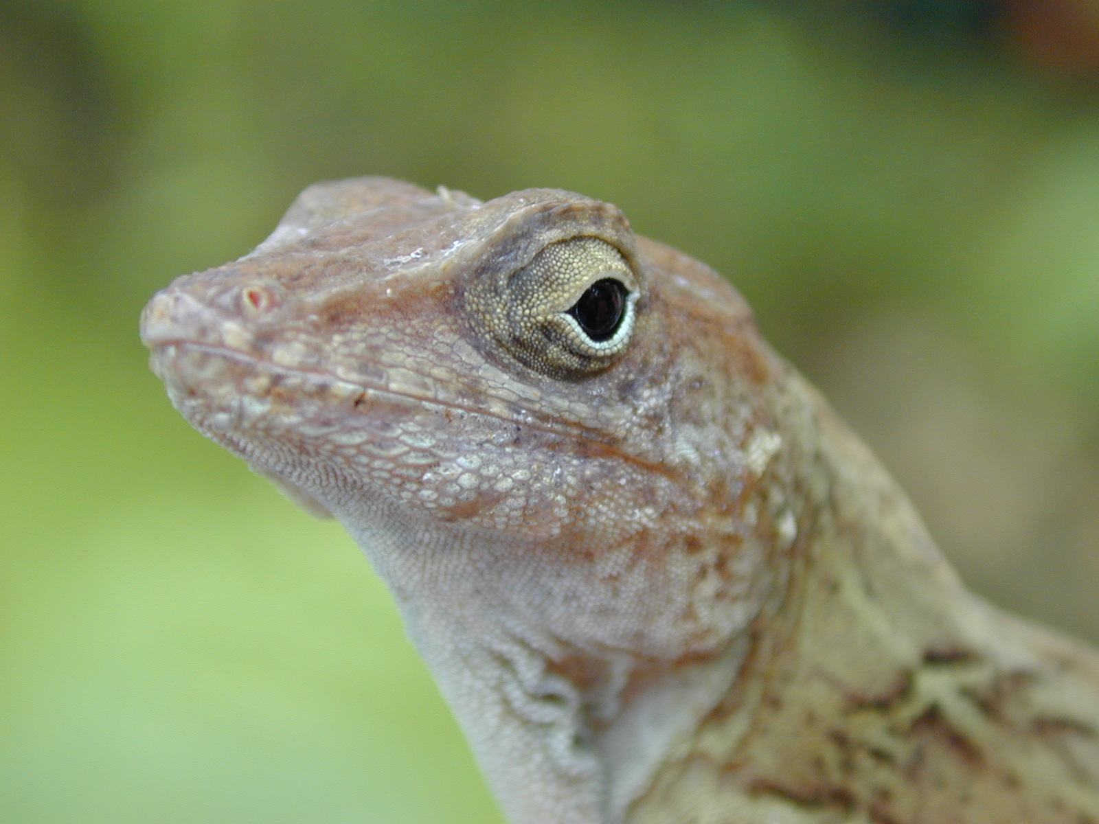 anolis cybotes head